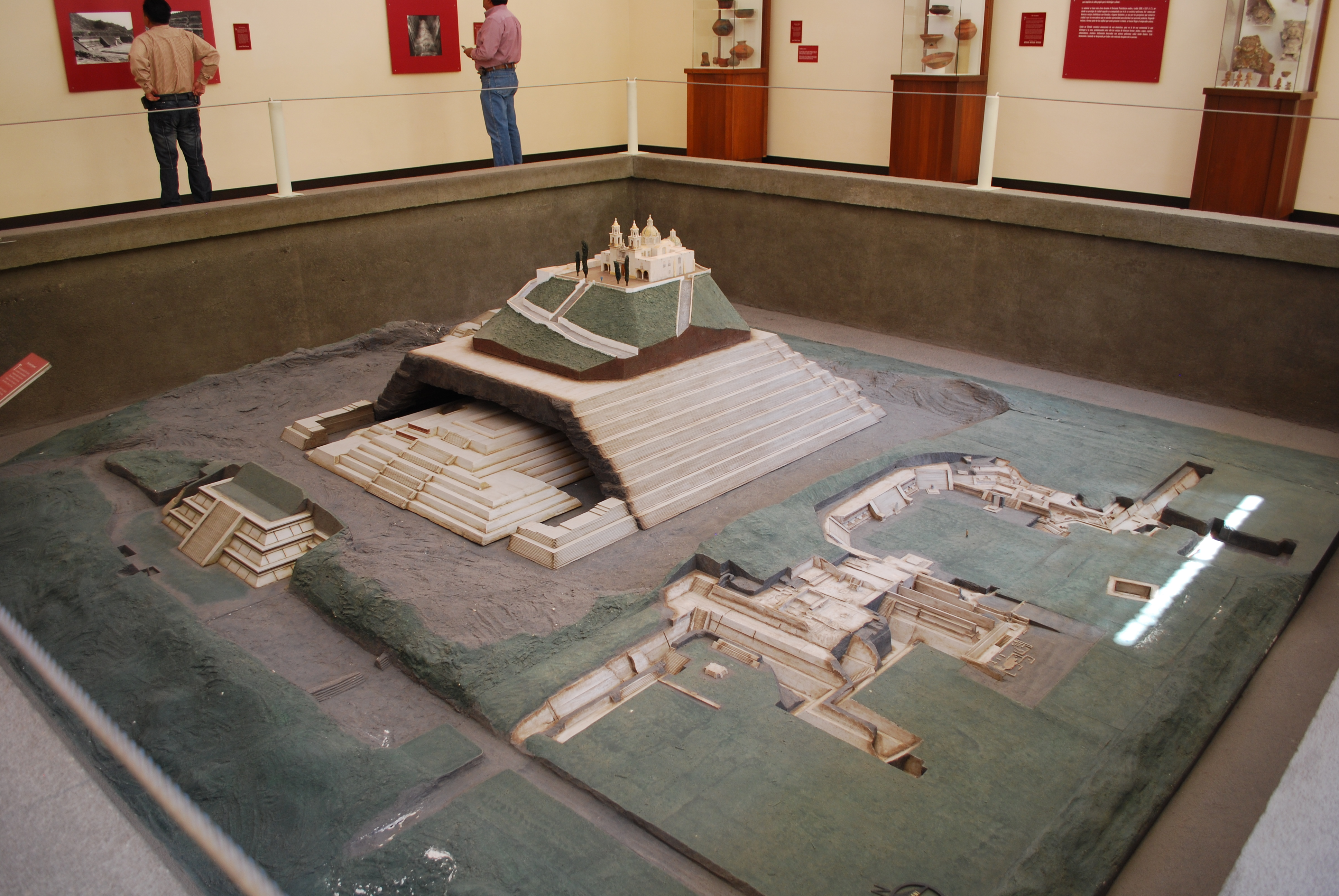 Model of the Cholula Pyramid site at the site museum in Puebla, Mexico